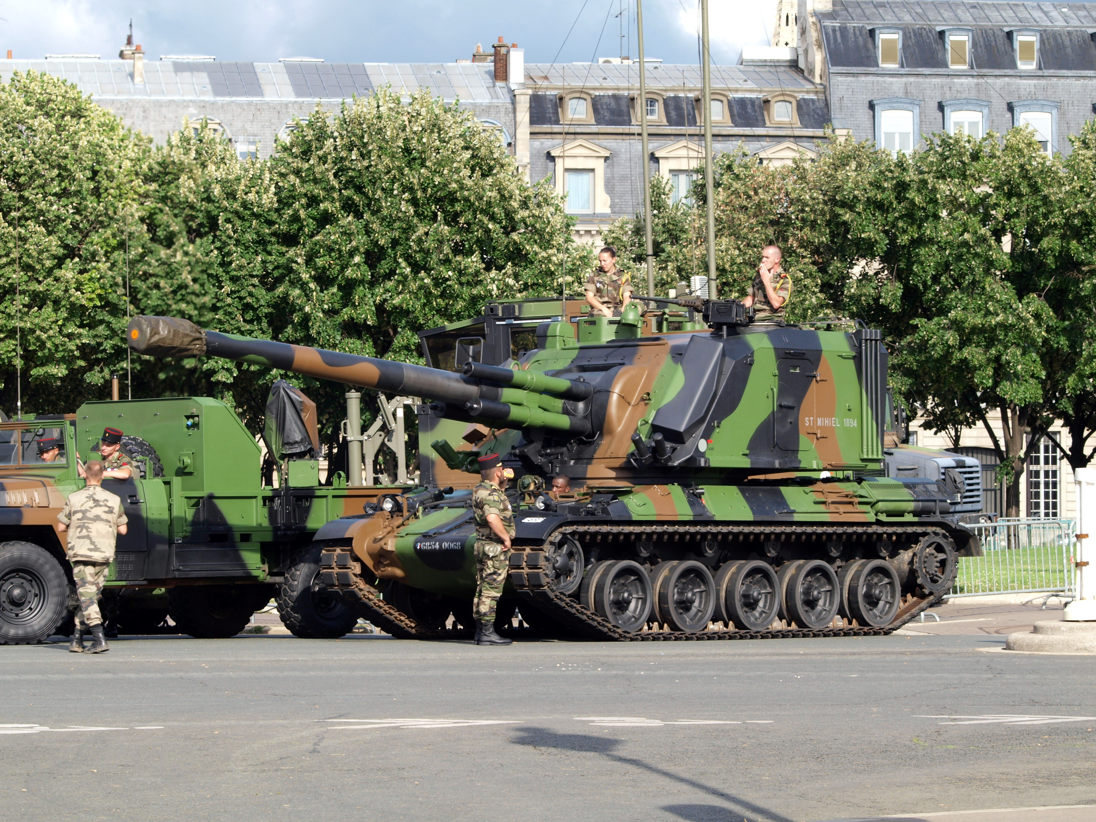 CANON 155 AUF1 belonging to the 40e régiment d'artillerie, named after the World War I battle at St Mihiel 1894.